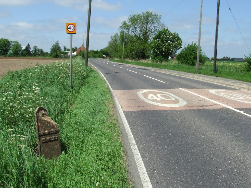 Cast Iron Milepost